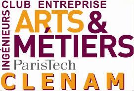 Logo du Club Entreprise Arts et Métiers